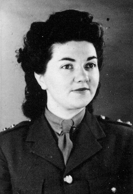 Self produced photograph of Mary Morris during her time in Queen Alexandra's Imperial Military Nursing Service Reserves, 1946. Photo belongs to descendents of Mary Morris, who have released is as creative commons, attribution share-alike, also available on flickr